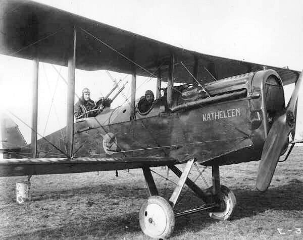 278th Aero Squadron - Dayton Wright DH-4 "Katheleen". Note squadron emblem on fuselage.